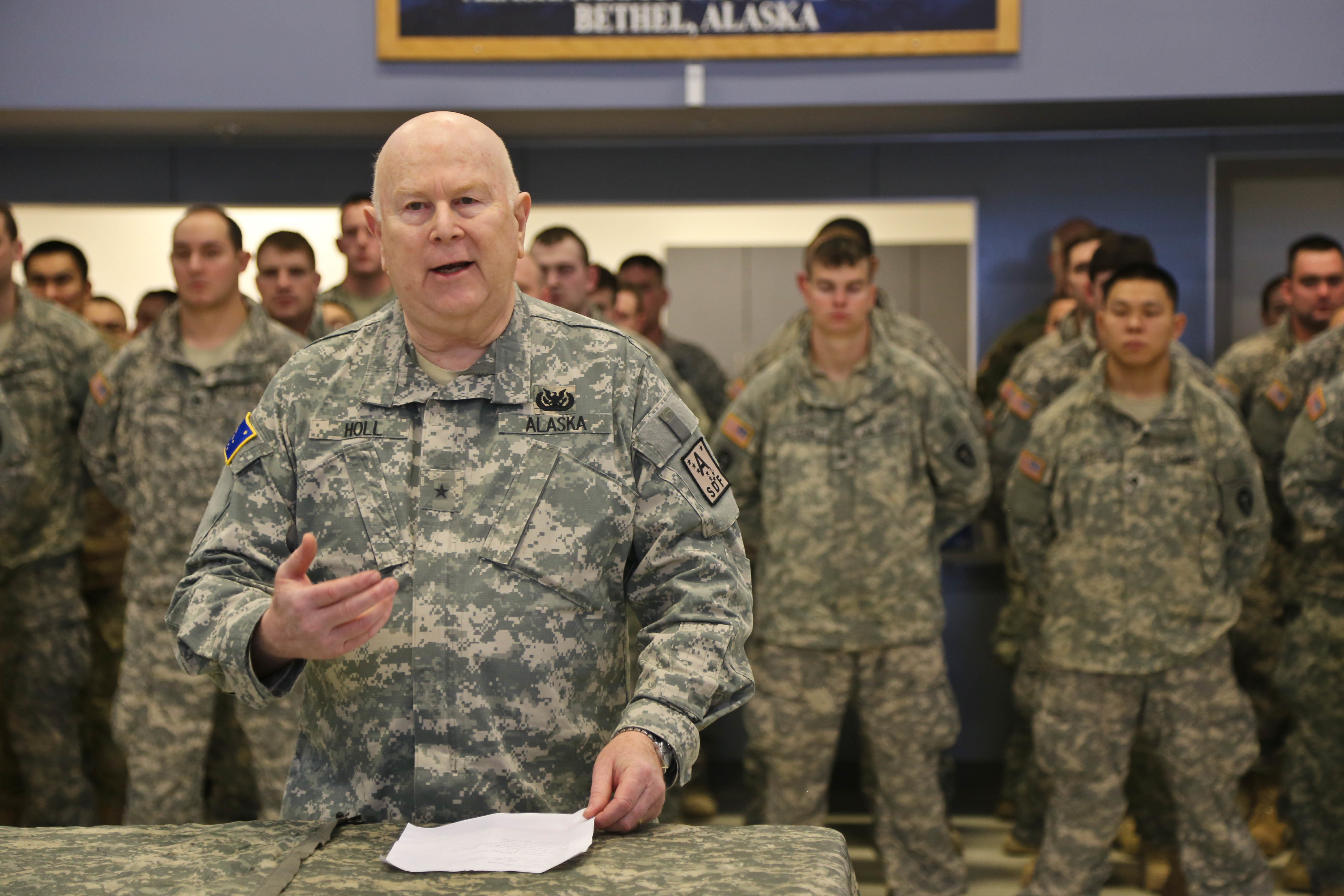 Brig. Gen. (Alaska) Roger Holl, commander of the Alaska State Defense Force, speaks at a stand-up ceremony establishing the Bethel-based ASDF unit during an open house event at the Bethel armory on Jan. 14. The open house served the residents of Bethel with a barbeque, Alaska Army National Guard and Alaska State Defense Force recruiting, and informative service booths on family and veterans programs. (U.S. Army National Guard photo by Sgt. Marisa Lindsay)